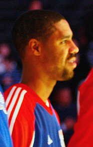 Los Angeles Clippers players stand up for the national anthem before the December 31, 2007 game against the Minnesota Timberwolves at Staples Center.